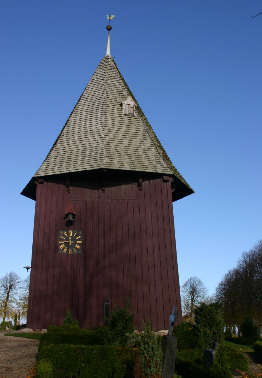 Wooden belfry. Church of Broager, Denmark.